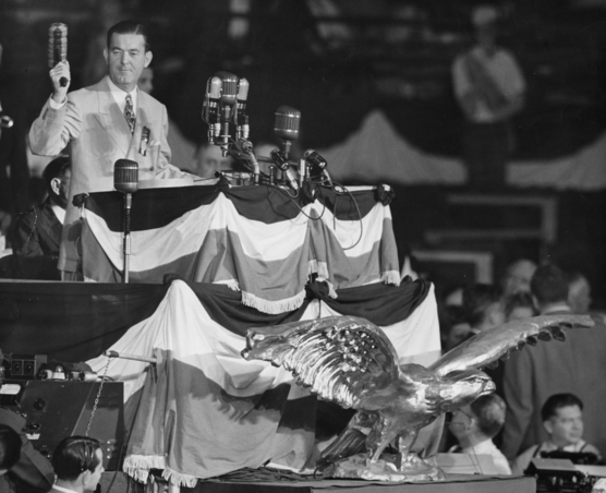 Democratic National Committee Chairman Robert E. Hannegan calls the Democratic National Convention to order in Chicago, Illinois.